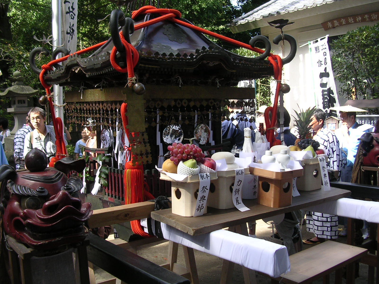 Mikoshi at Goryō-jinja, Kamakura, Japan. Photo taken on 9/18/05, at a matsuri called 「面掛行列」 御輿，御霊神社，鎌倉 more info on the shrine: [1]